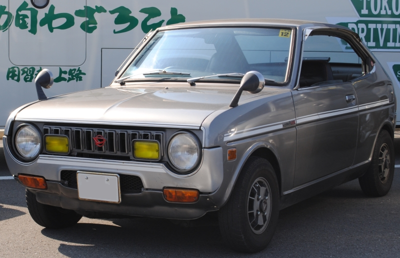 Daihatsu Fellow Max.